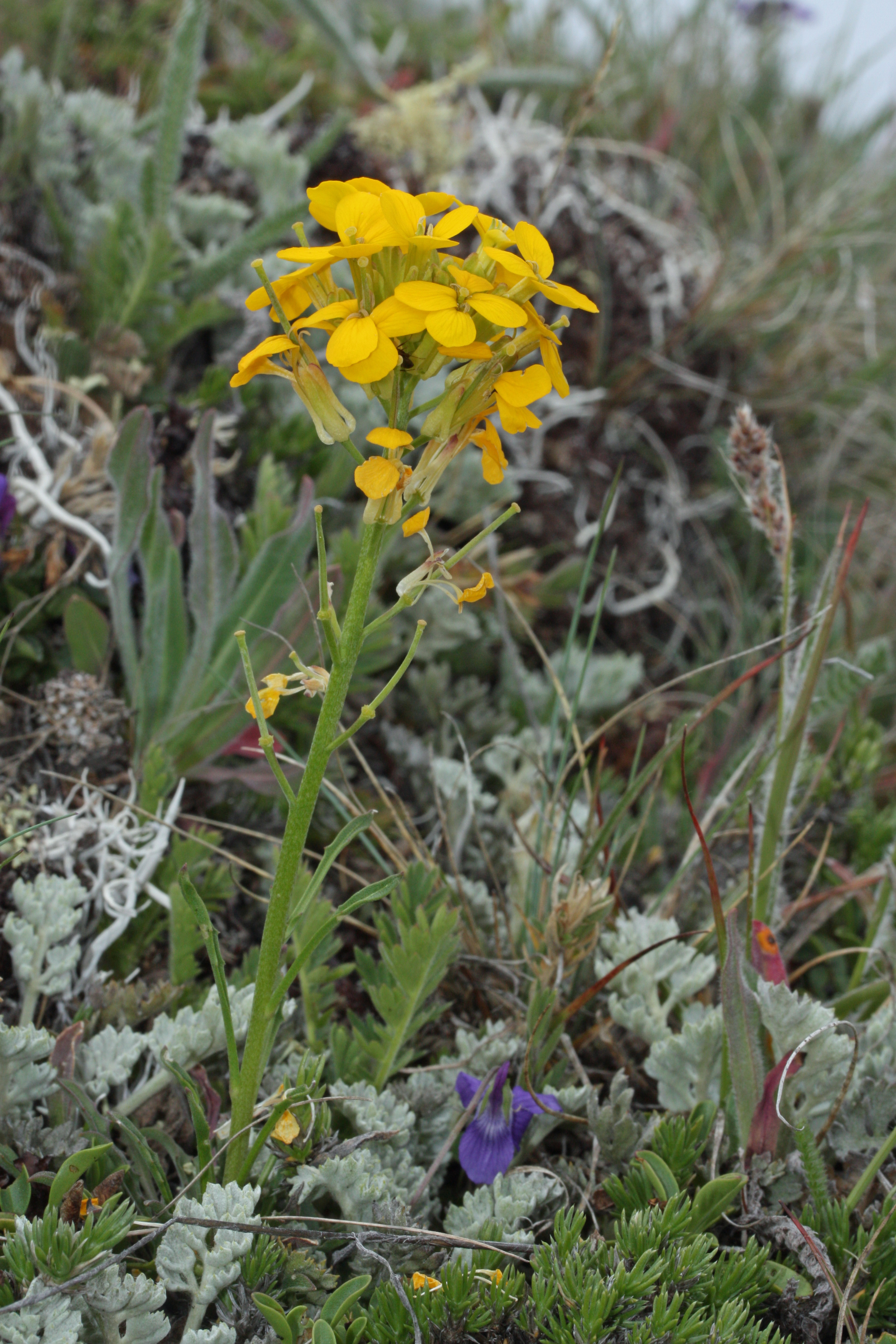 Rough Wallflower, Prairie Rocket